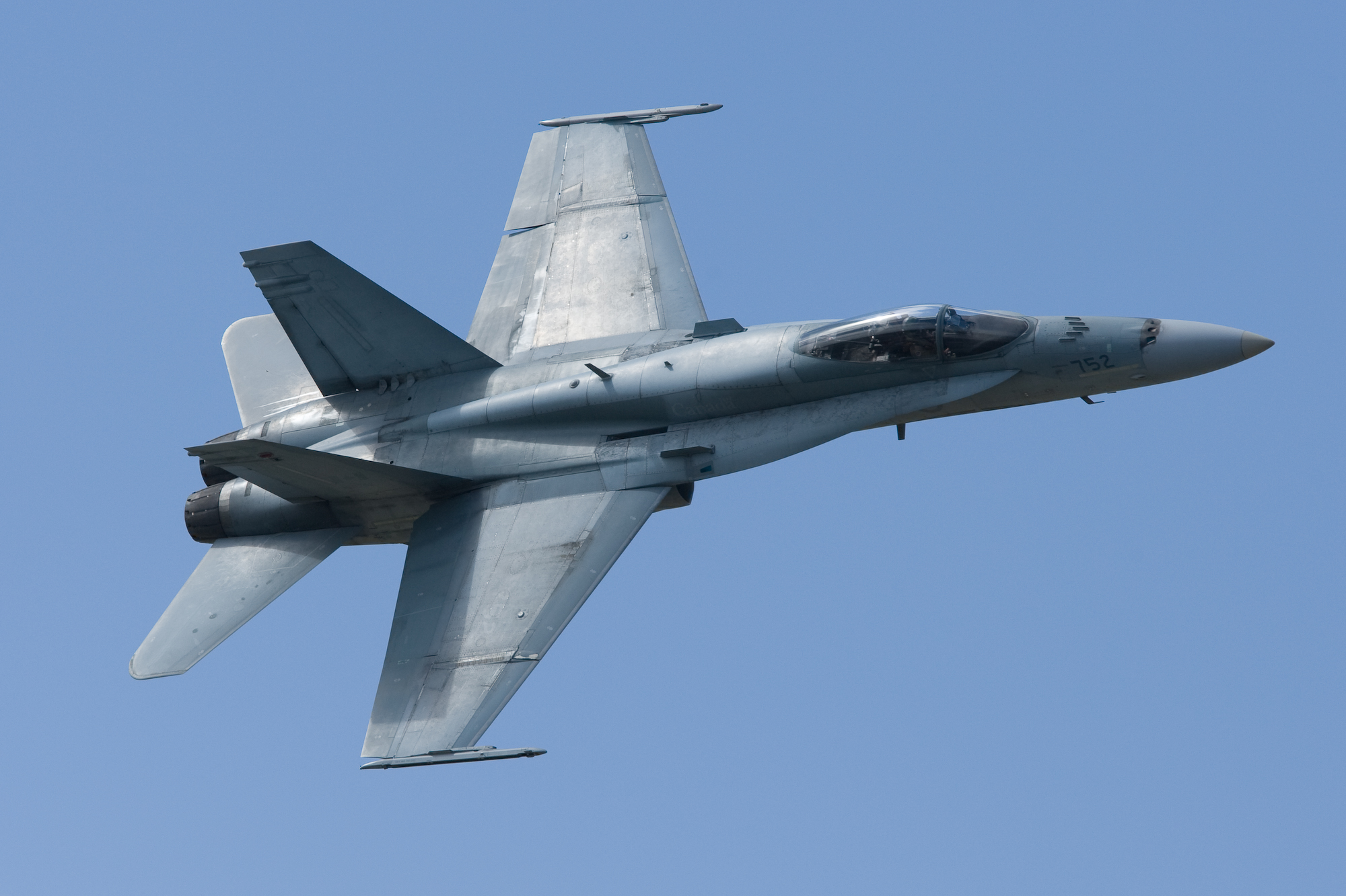 A typical maple leafed CF-188 Hornet.